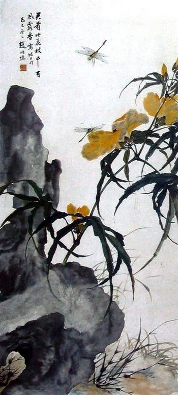 Cjao Shi. (Old china painting)